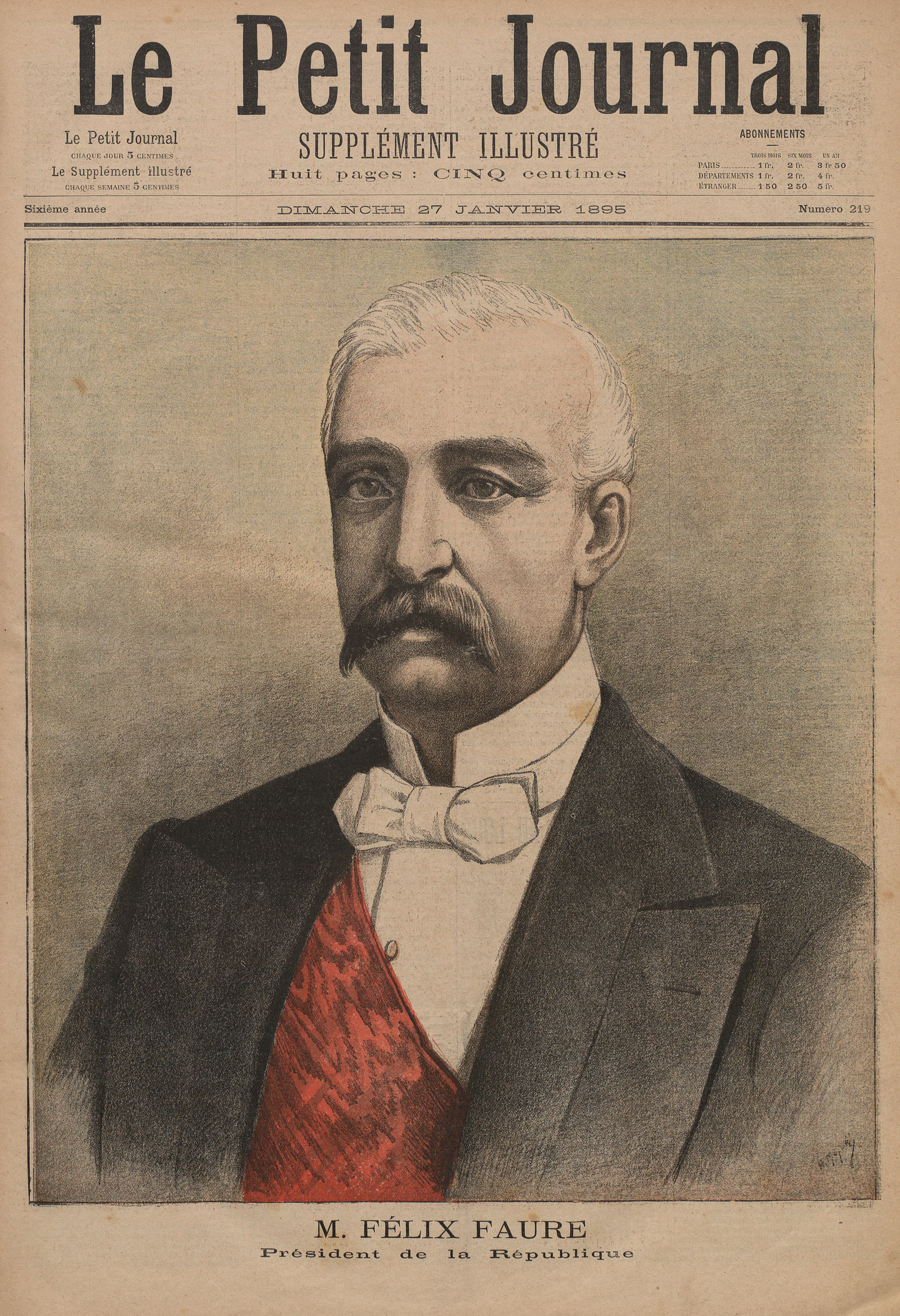 Portrait of French president of the Republic Félix Faure, in Le Petit Journal.